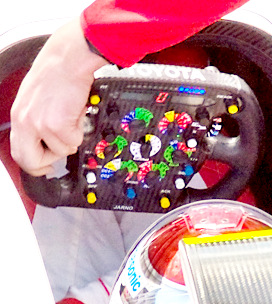 Toyota TF109 steering wheel 1/320s - F/14 - 200mm - ISO200